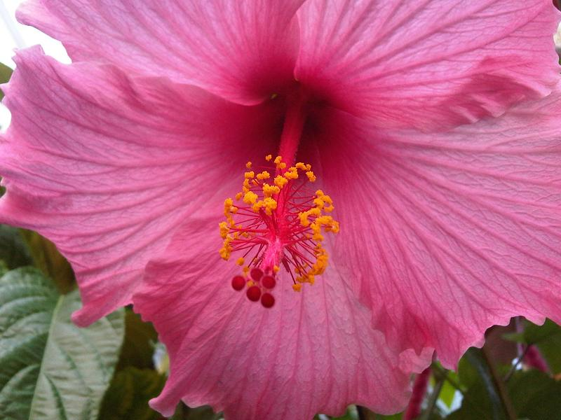 Hibiscus rosa-sinensis 'Agnes Gault' cultivars in Kew Gardens, England.